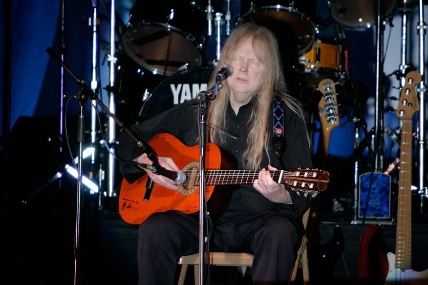 Larry Norman playing after being inducted into the San Jose Rocks Hall of Fame 10-19-07.